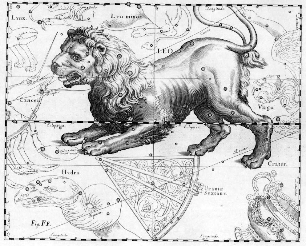 The Leo constellation from Uranographia by Johannes Hevelius. The view is mirrored following the tradition of celestial globes, showing the celestial sphere in a view from "ouside"